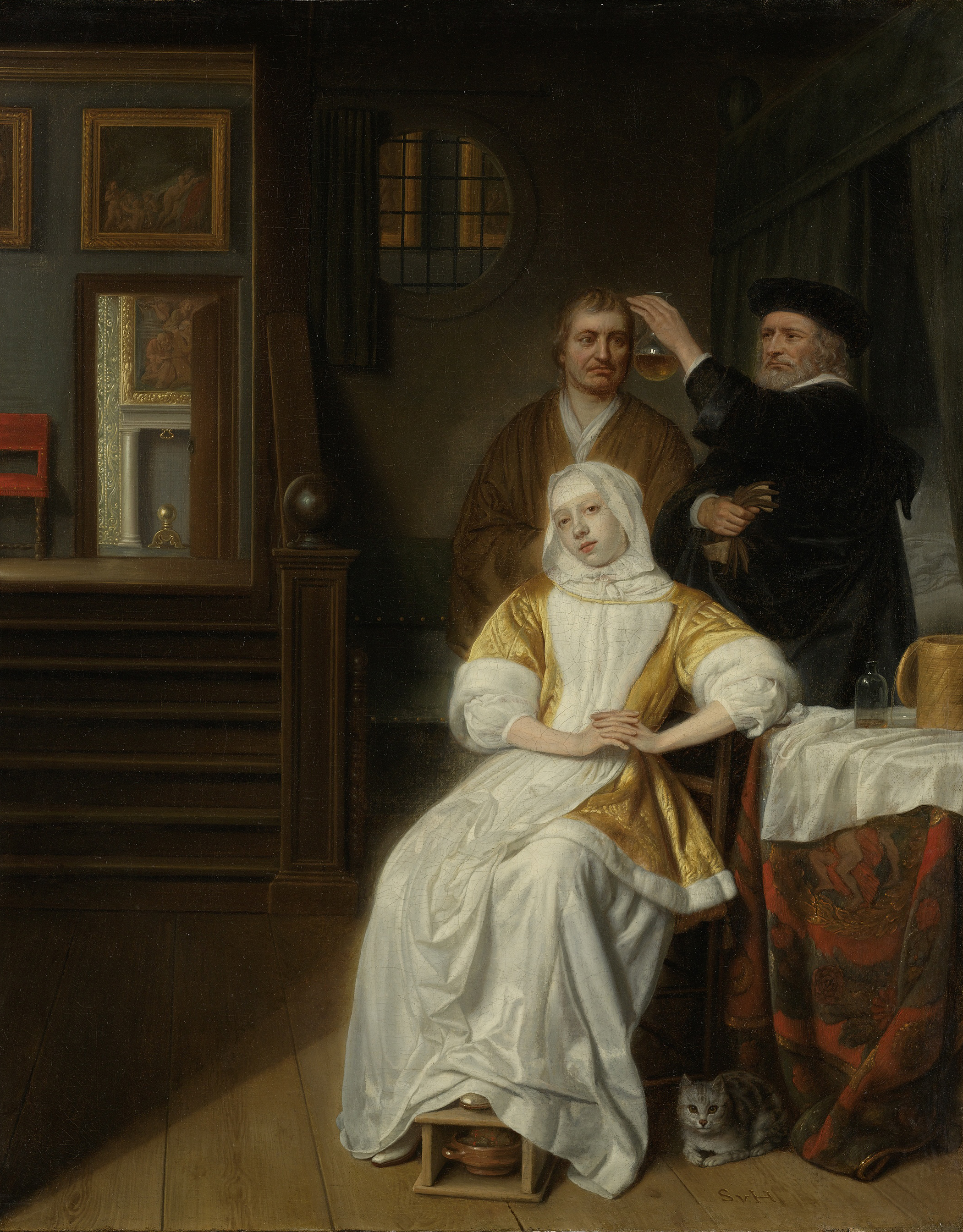 "The anaemic lady. Interior with a sick young woman sitting on a chair next to a table for a bedstead. Under her feet she has a stove, right under a cat. Behind the woman doctor holding a swirling with urine to the light, next to him is a man. Left a staircase leads to other rooms, above the door hangs a painting. In the back room a fireplace with a mantle piece.